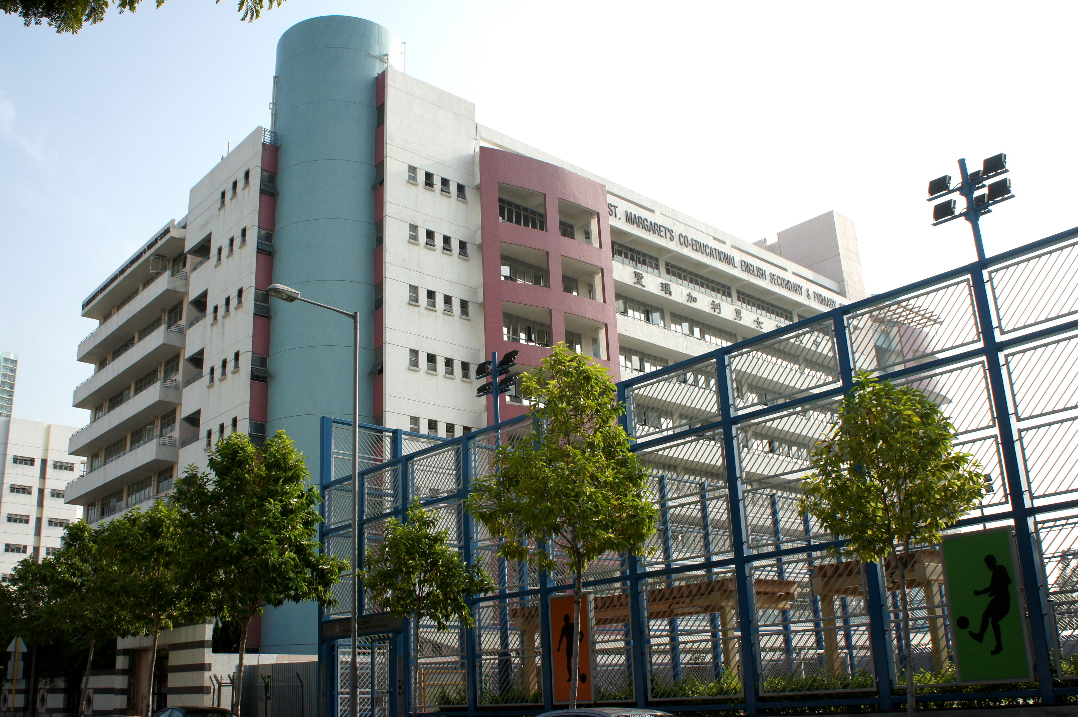 St. Margaret's Co-educational English Secondary and Primary School, West Kowloon, Hong Kong.